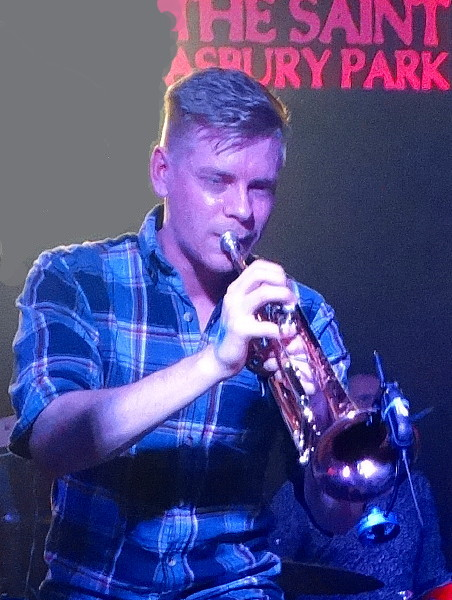 Close ups of members of Current Swell playing at The Saint in Asbury Park, NJ. Photo by LHCollins. 04062018.